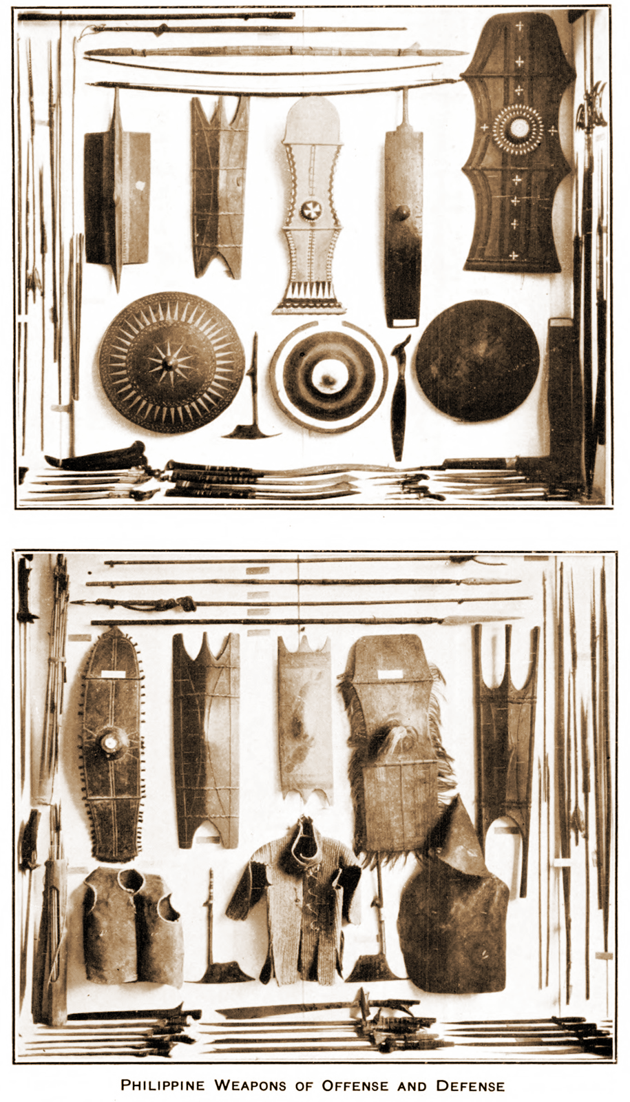 Plate 1 - "Philippine Weapons of Offense and Defense", by Herbert William Krieger at the Collection of Primitive Weapons and Armor of the Philippine Islands in the United States National Museum, 1926. Public Domain.